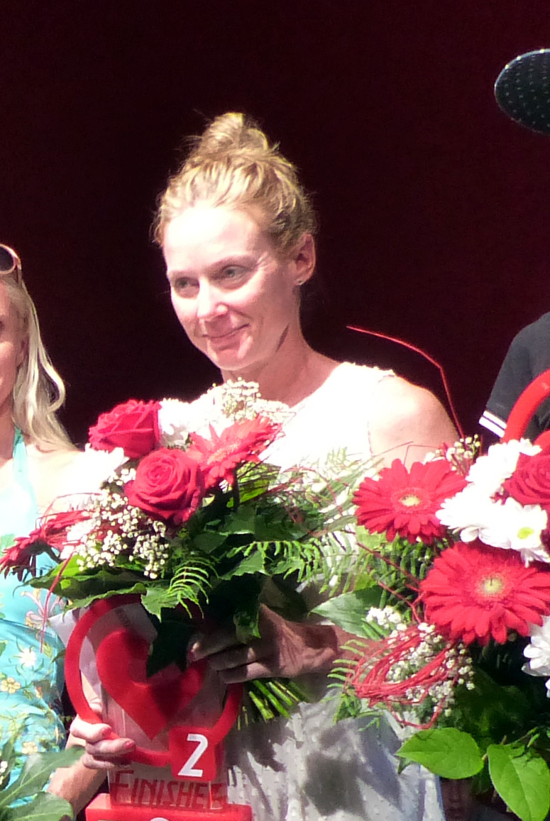 Carrie Lester Roth 2016